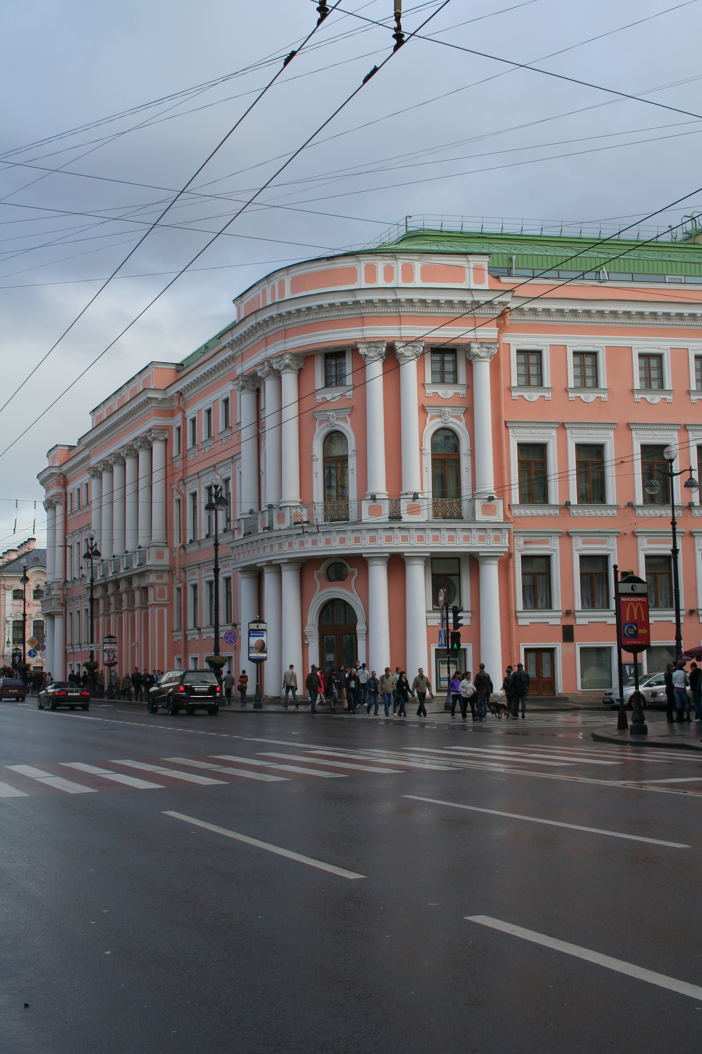 The Nevsky Prospekt in Saint Petersburg. House number 15.